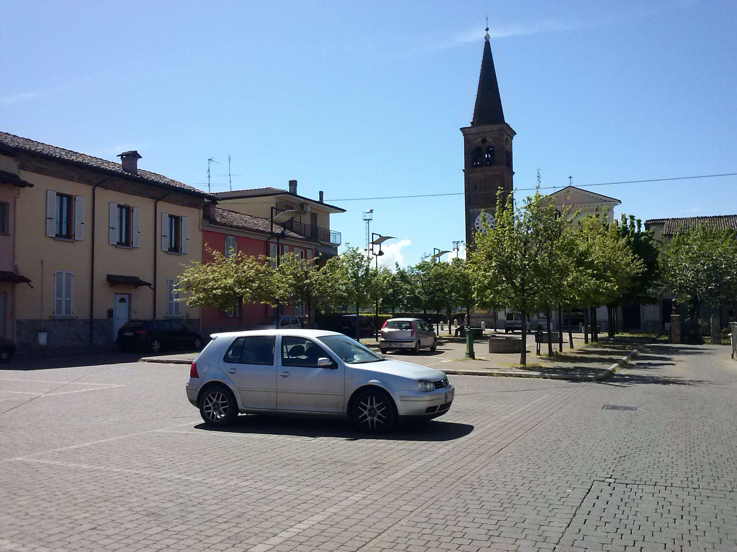 Place of San Polo, municipality of Podenzano (Piacenza, Italy)